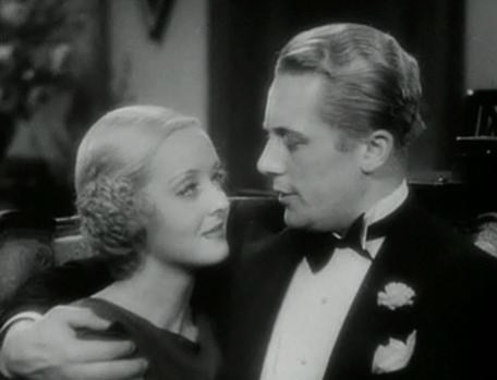 Bette Davis and Gene Raymond in Ex-Lady - trailer (cropped screenshot)